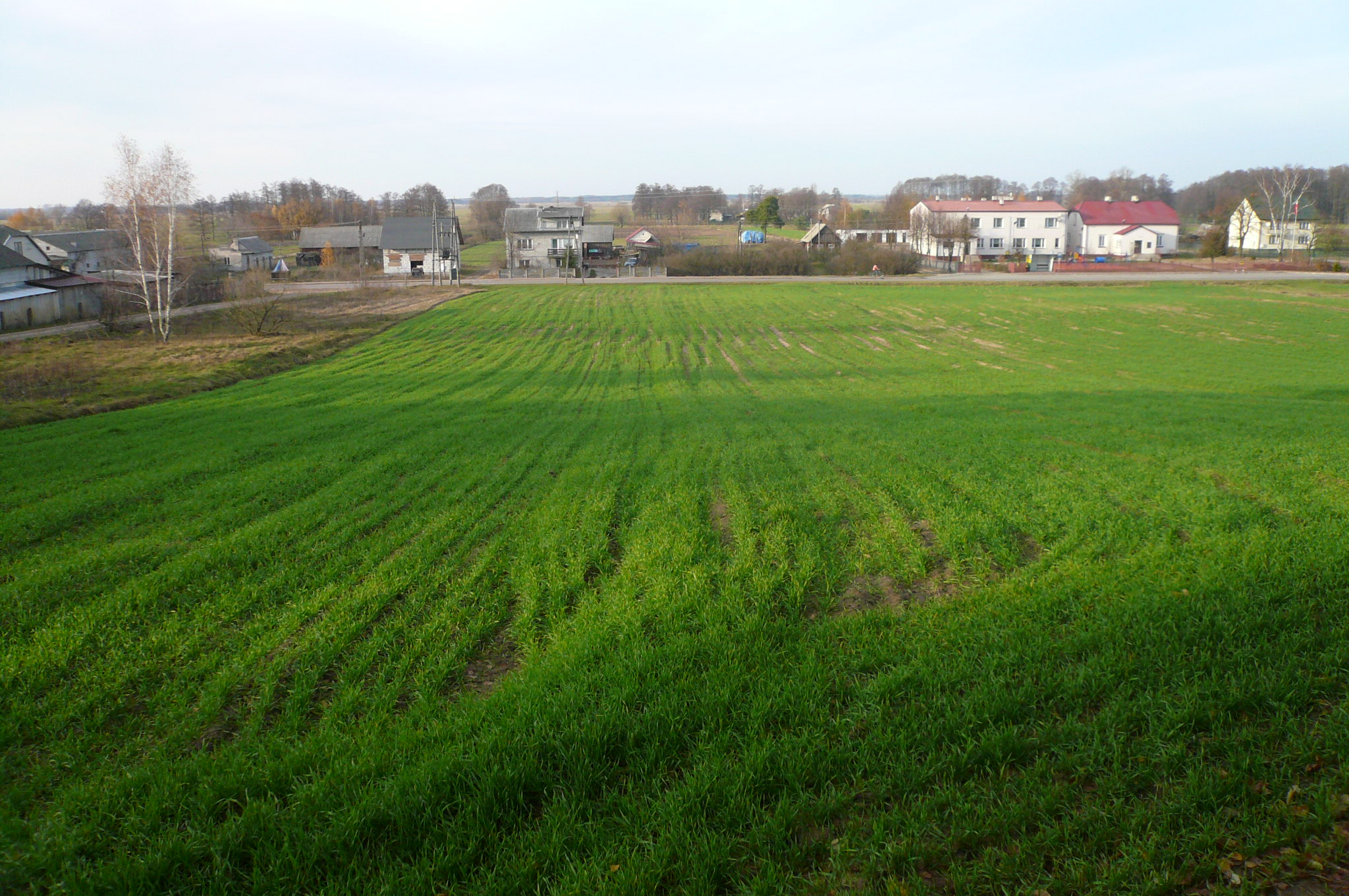 The place of sabotage mission of scout Assault Groups against German Grenzschutz in 1943, Sieczychy (view in 2012)